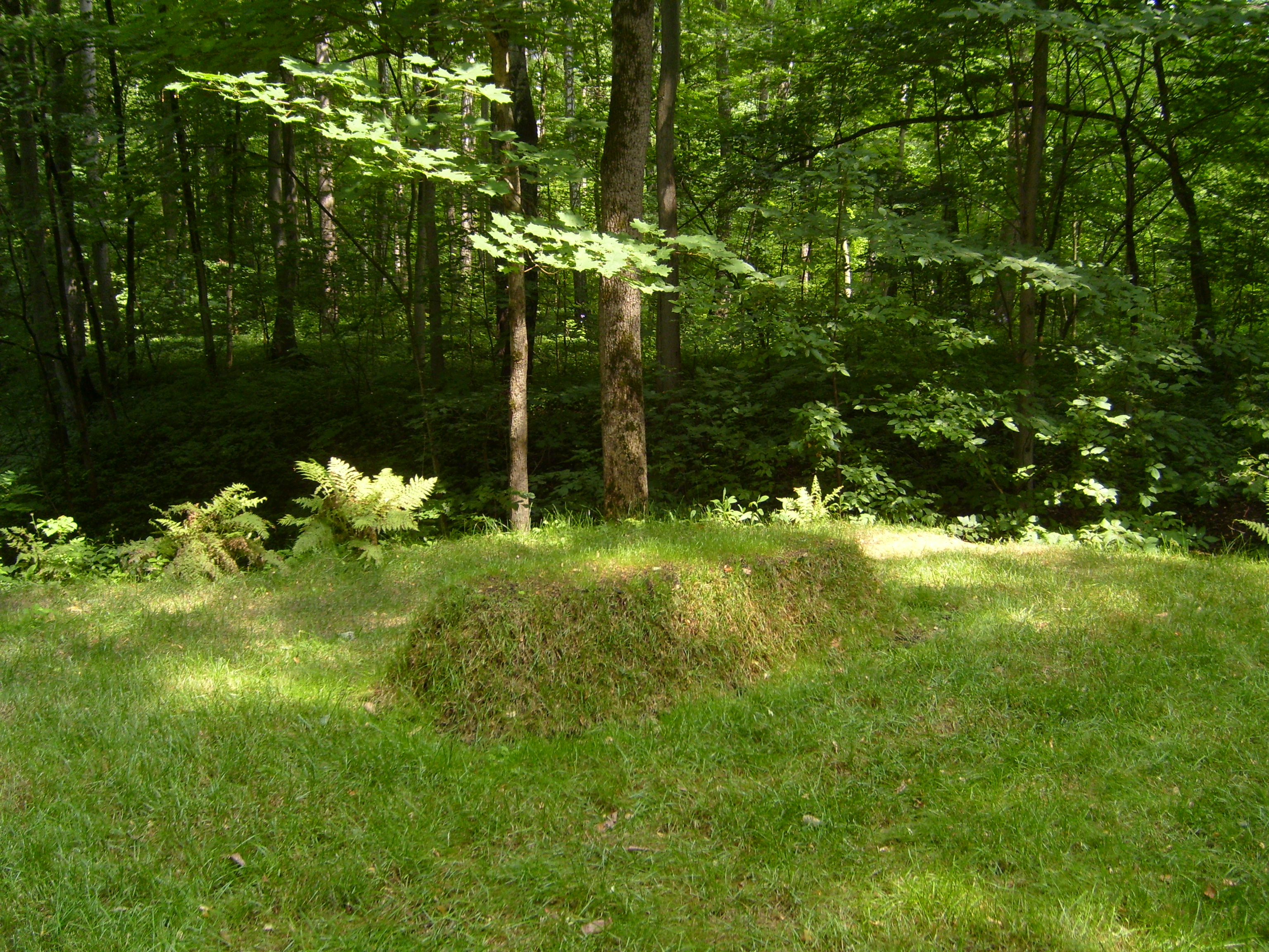 Grave of Leo Tolstoy in park at Yasnaya Polyana